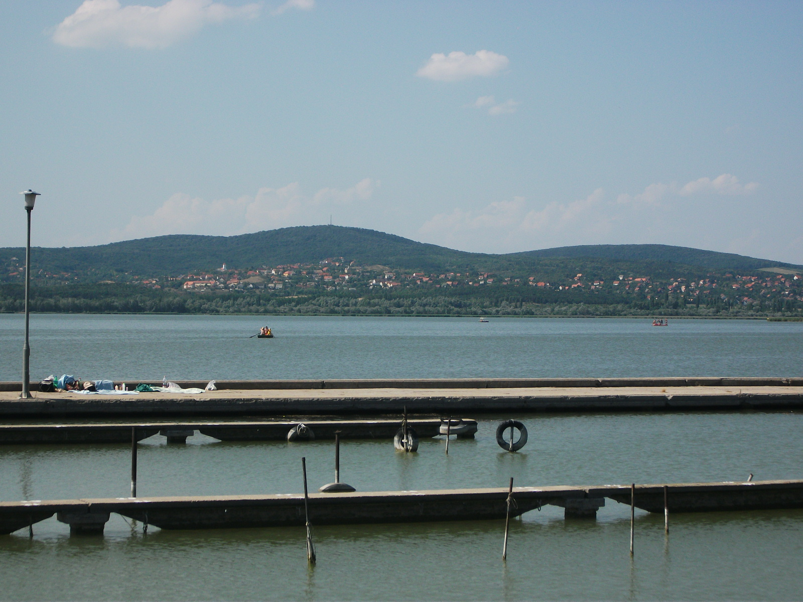 Lake Velence.